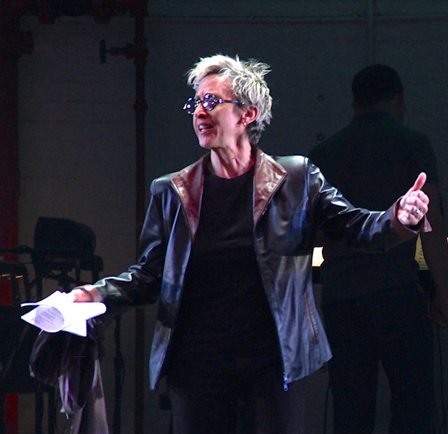 Directing on stage at City Center 2015